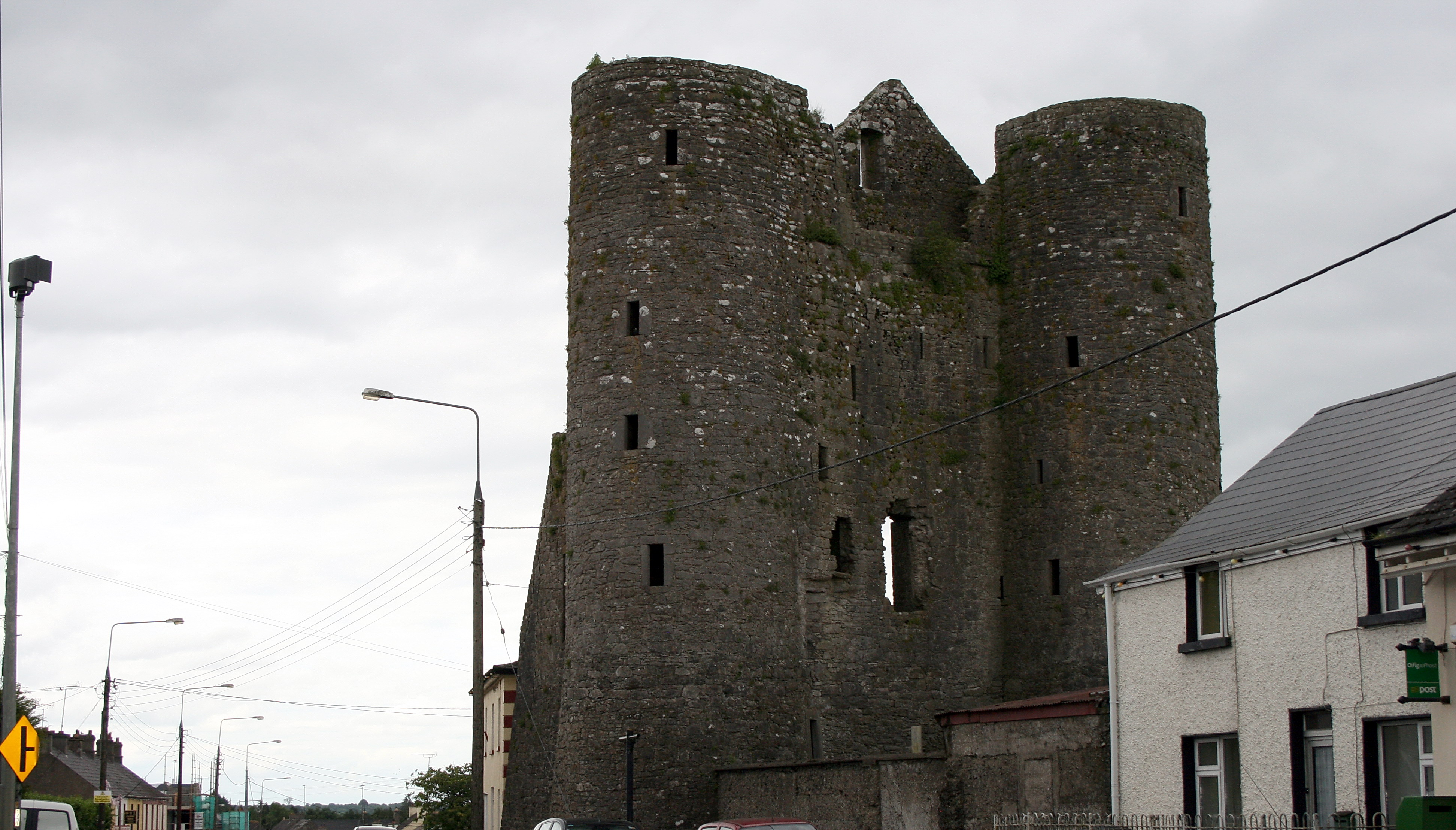 The castle on Main Street, Delvin, County Westmeath